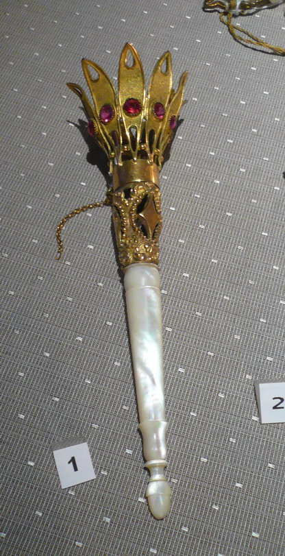 Porte-bouquet (1820-1830)_from Museu_Marès collection. Gilded metal, mother of pearl and glass stones.